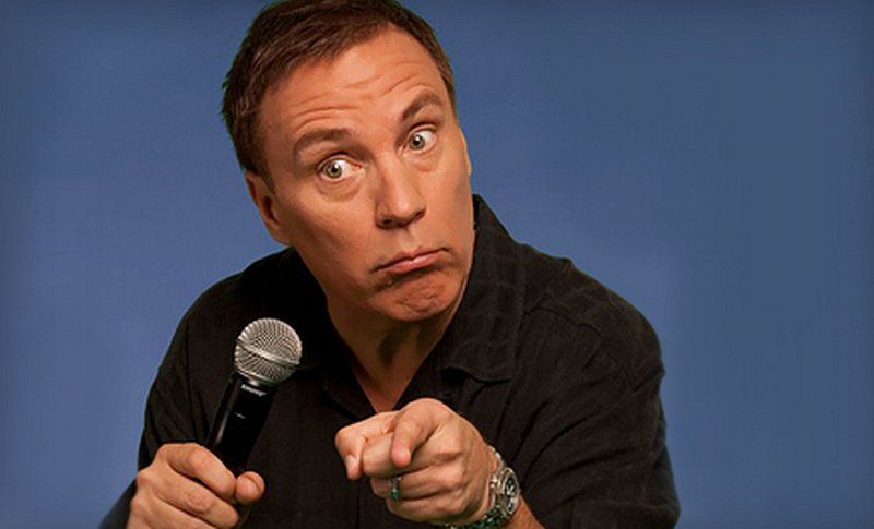 Craig Shoemaker, stand-up comedian